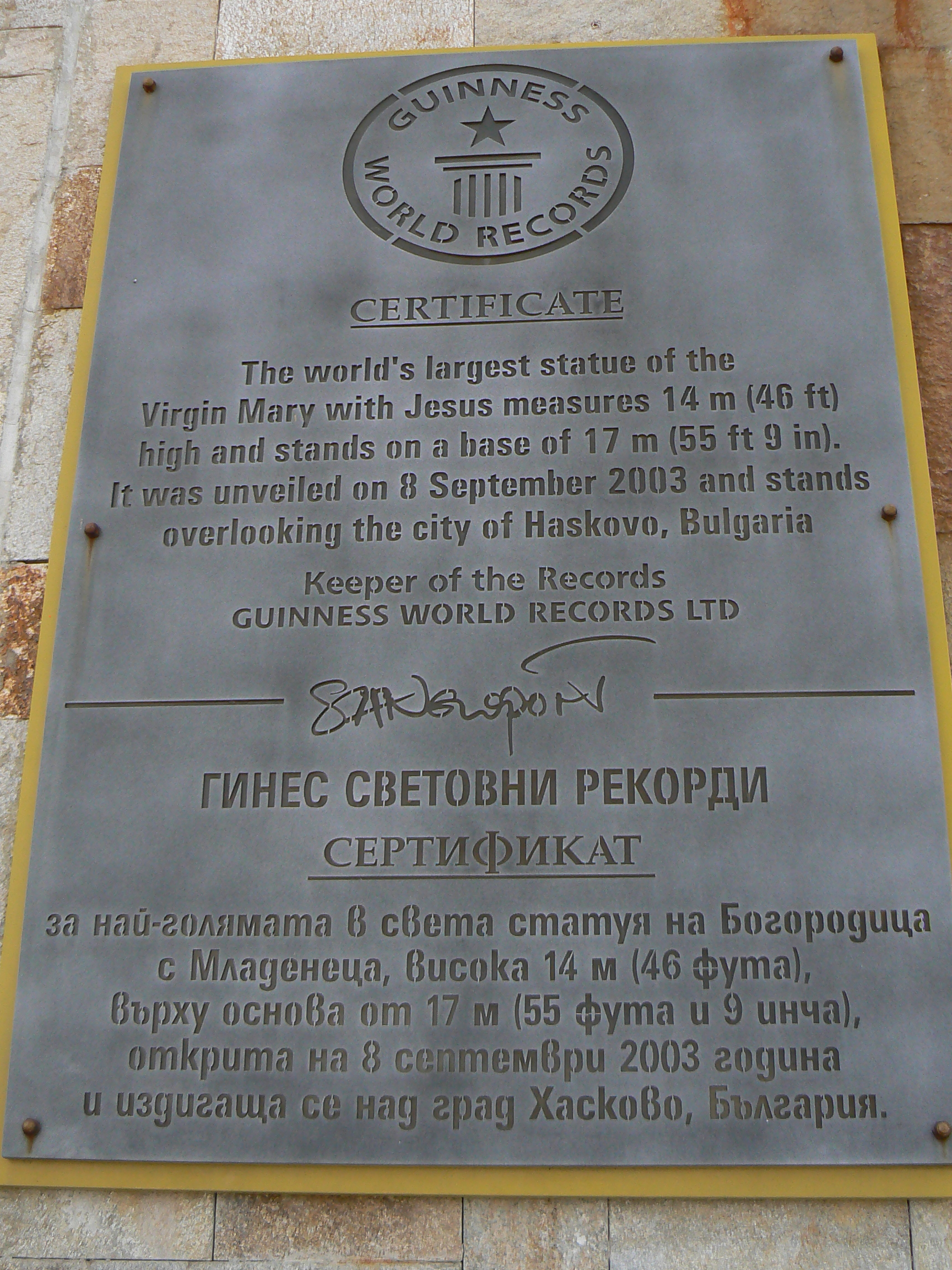 The Guinness certificate for the Monument of Virgin Mary, Haskovo